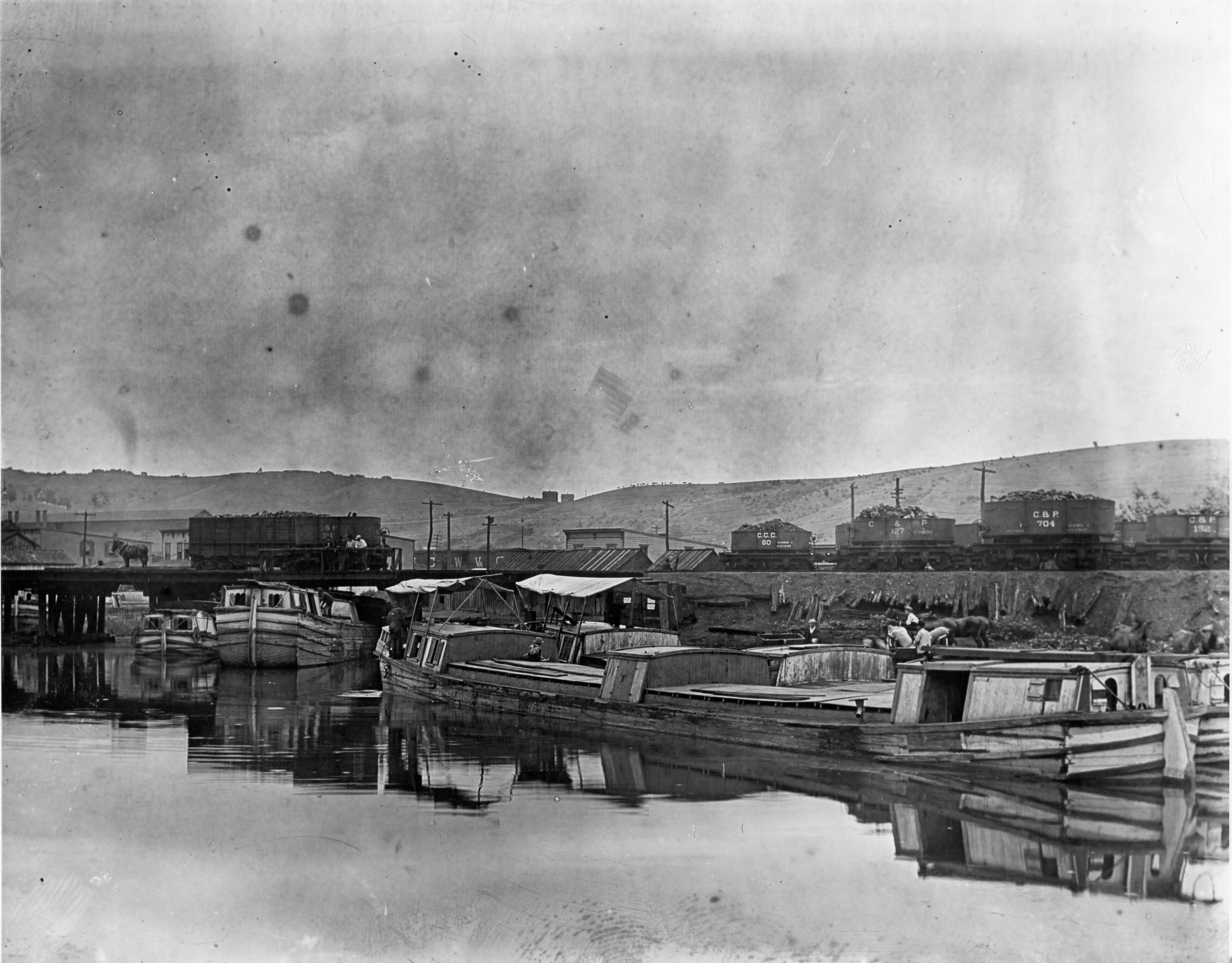 "Canal boats at Cumberland, Maryland, being loaded from railroad cars. The boats riding low in the water have already been loaded. National Park Service: E.B. Thompson Historic Negative Collection." Western terminus of the Chesapeake and Ohio Canal. Seen in the photo are coal cars from the Consolidation Coal Company and the Cumberland and Pennsylvania Railroad.